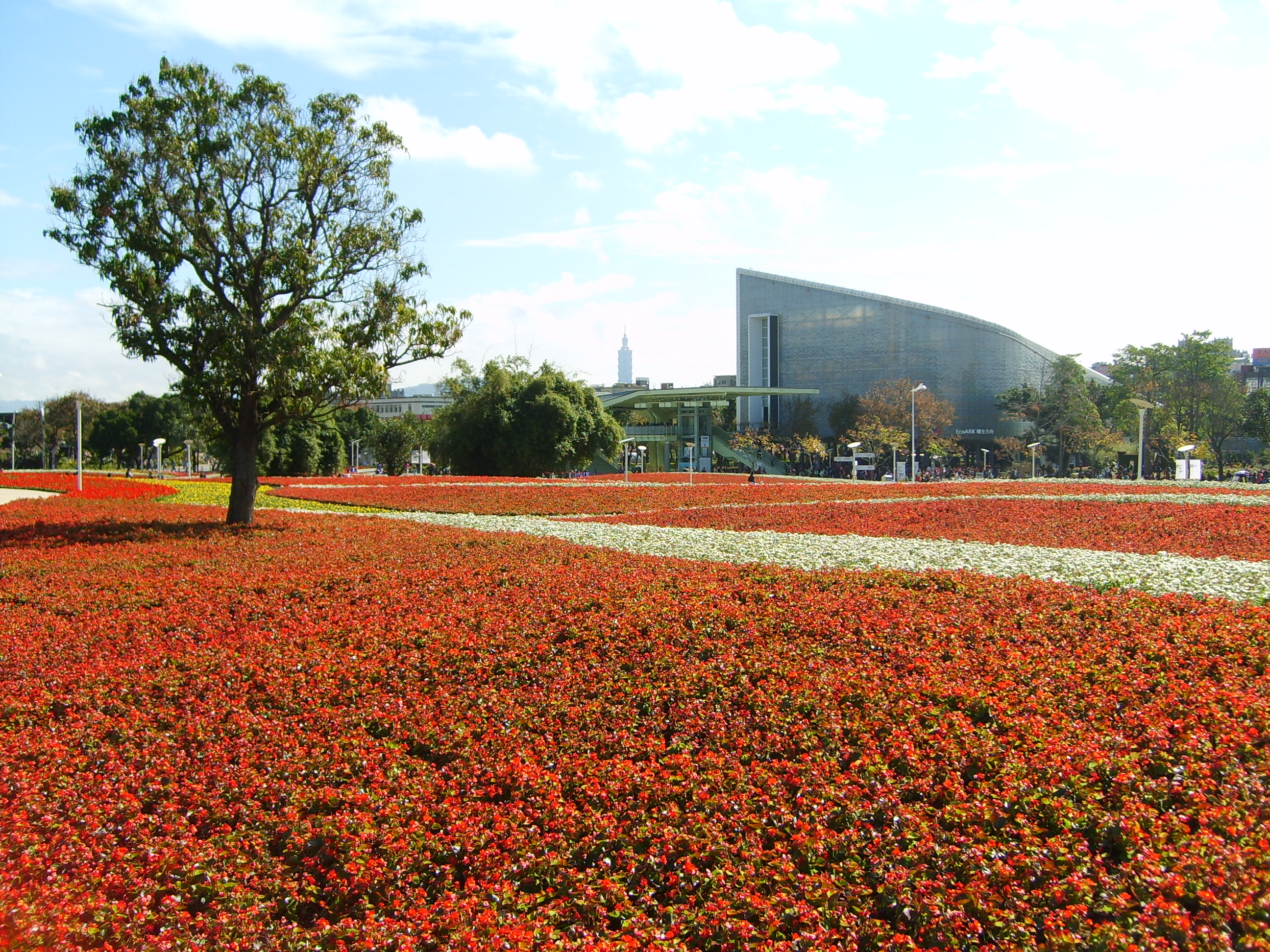 The sea of flowers in 2010 Taipei Flora Expo. Picture by: Trcheng My Blog